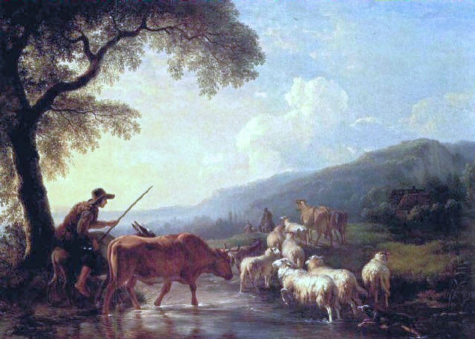 Landscape with shepherds